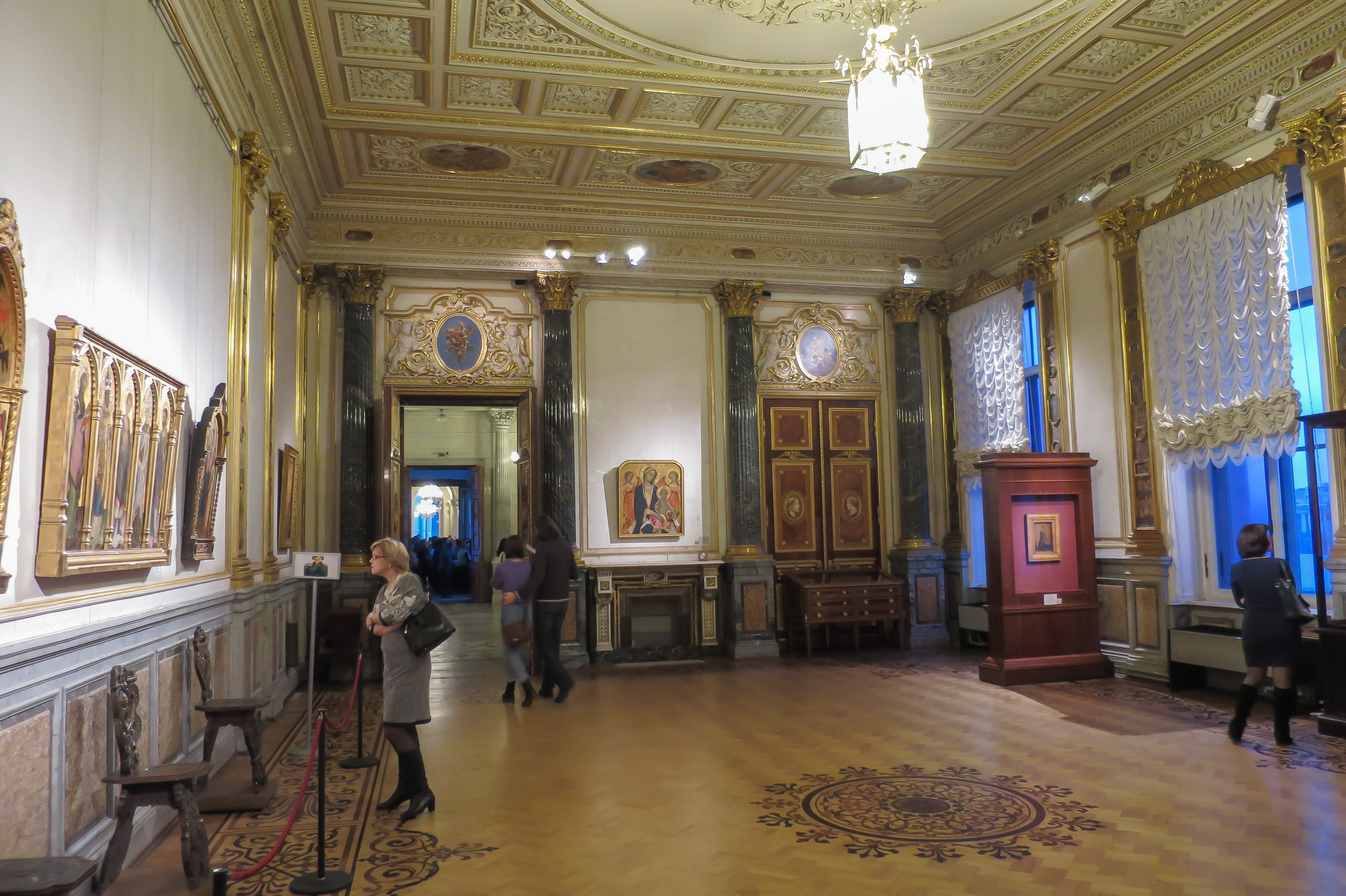 Hermitage Museum - Old Hermitage - 2nd Level - Room 207 - Room of Italian Art of the 13th to Early 15th Century (Saint-Pétersbourg, Russie)